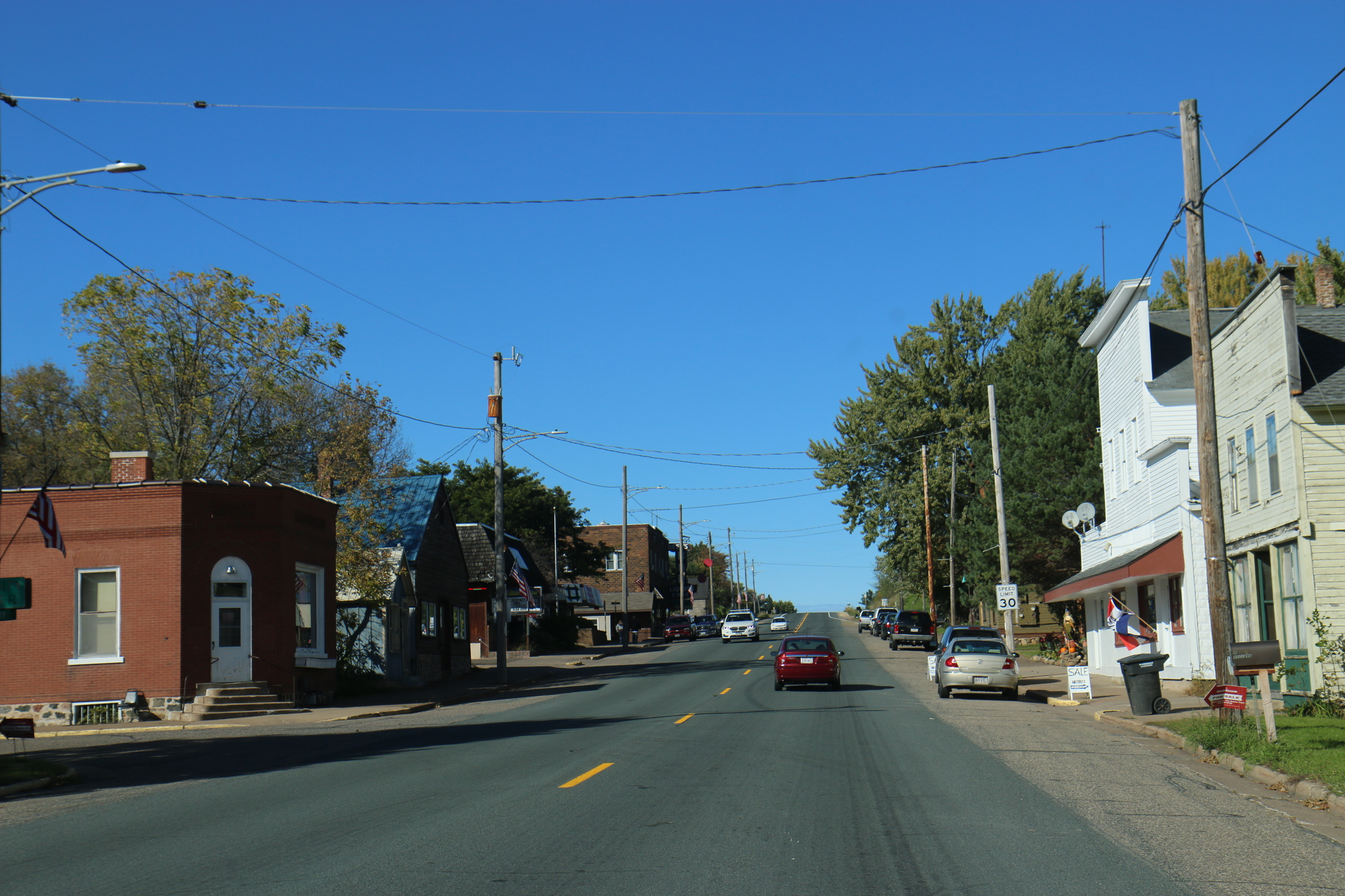 Downtown Deer Park, Wisconsin on WIS46.